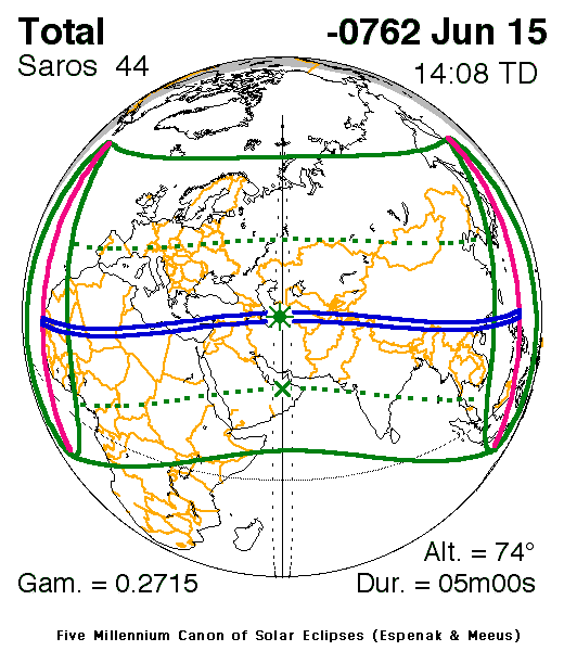 The eclipse of Bur Sagale that supports Assyrian chronology